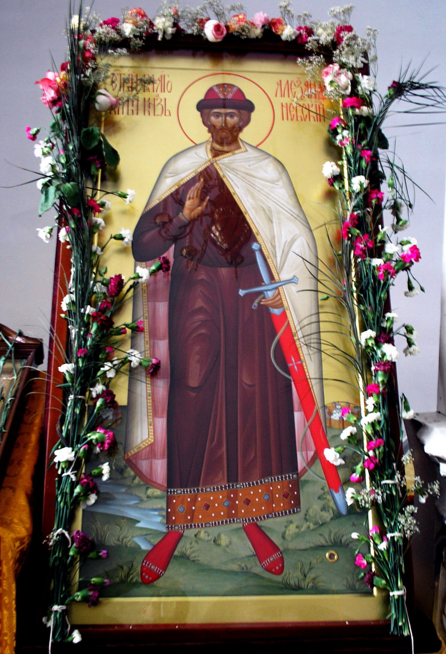 Icon of sacred prince Alexander Nevsky (Rtishchevo)